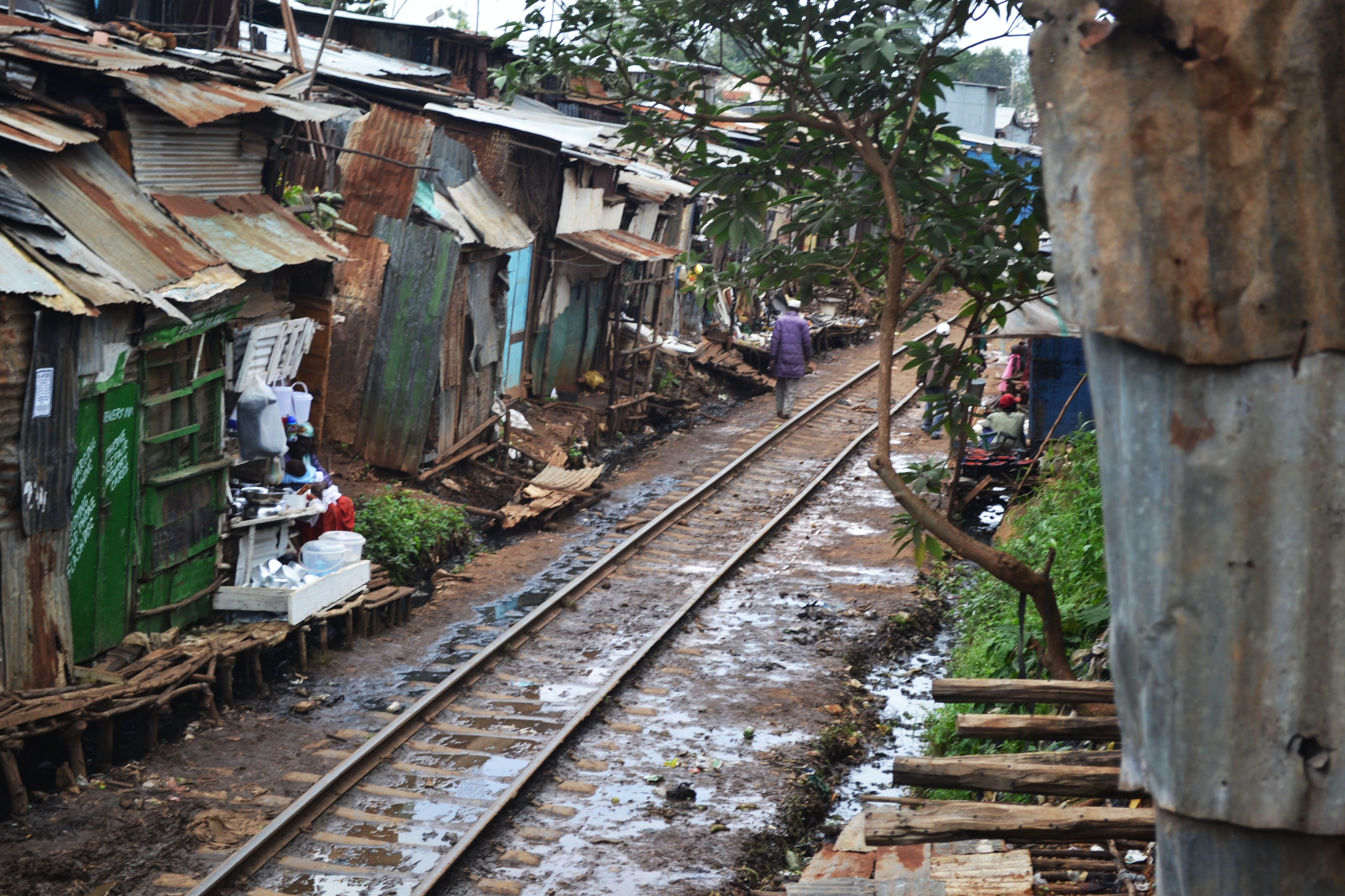 The Kibera slum in Nairobi - the capital city of Kenya, with about 1 million residents, is one of Africa's largest slums. Parts of the slum line railway tracks. The slum lacks sanitation, trash removal, drainage, safe drinking water, electricity, roads, and other public services.